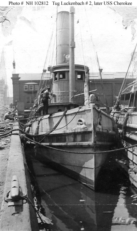 Luckenbach Number 2 (American Tug, 1891) In port, probably when inspected by the Third Naval District in 1917. This tug, owned by the Luckenbach Steamship Company and originally named Edgar F. Luckenbach, was taken over by the Navy on 12 October 1917 and placed in commission on 5 December 1917 as USS Cherokee (SP-458). She foundered at sea on 26 February 1918, while en route from Newport, Rhode Island, to Washington, D.C.